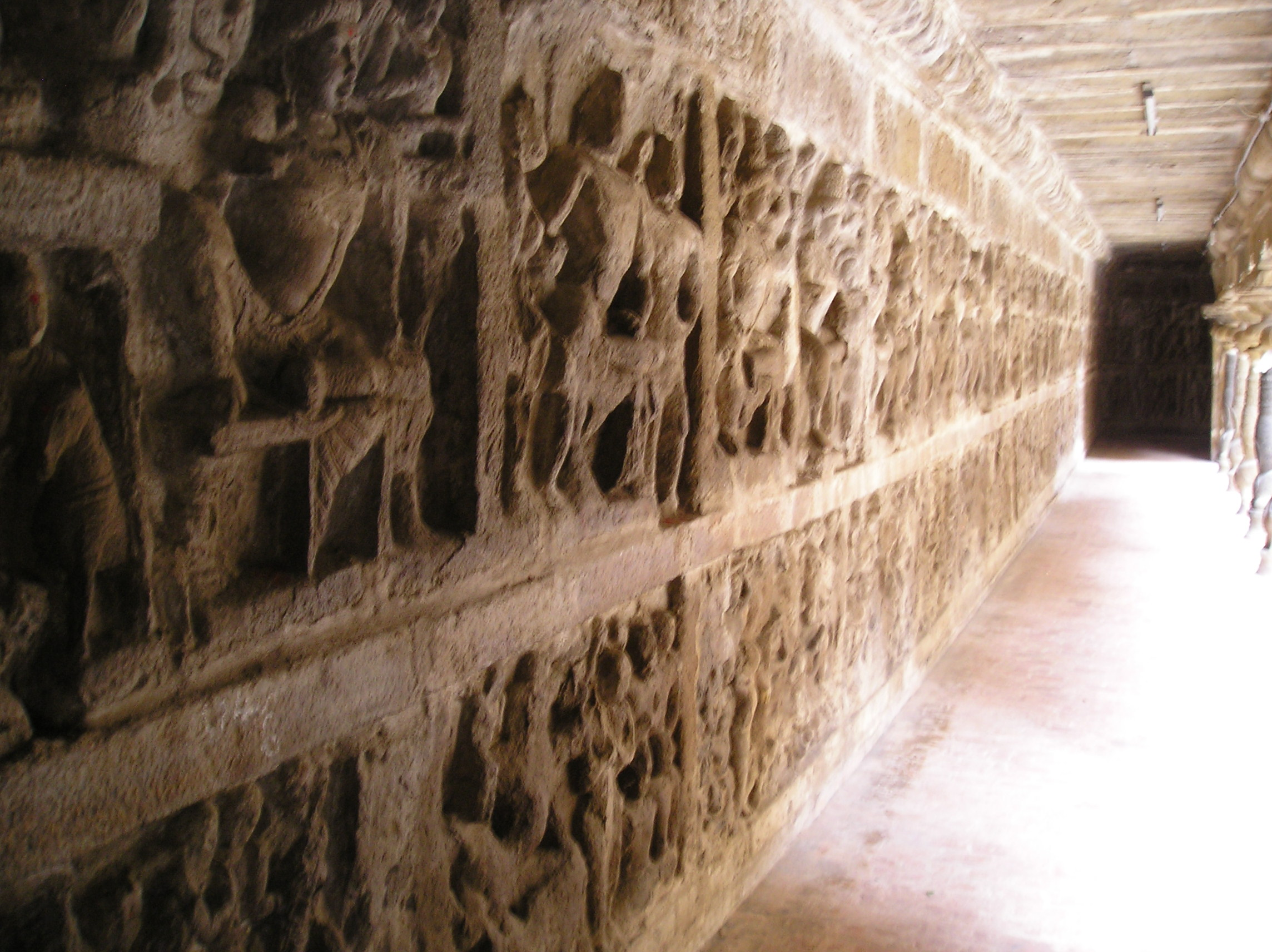 Parameshwara Vinnagaram